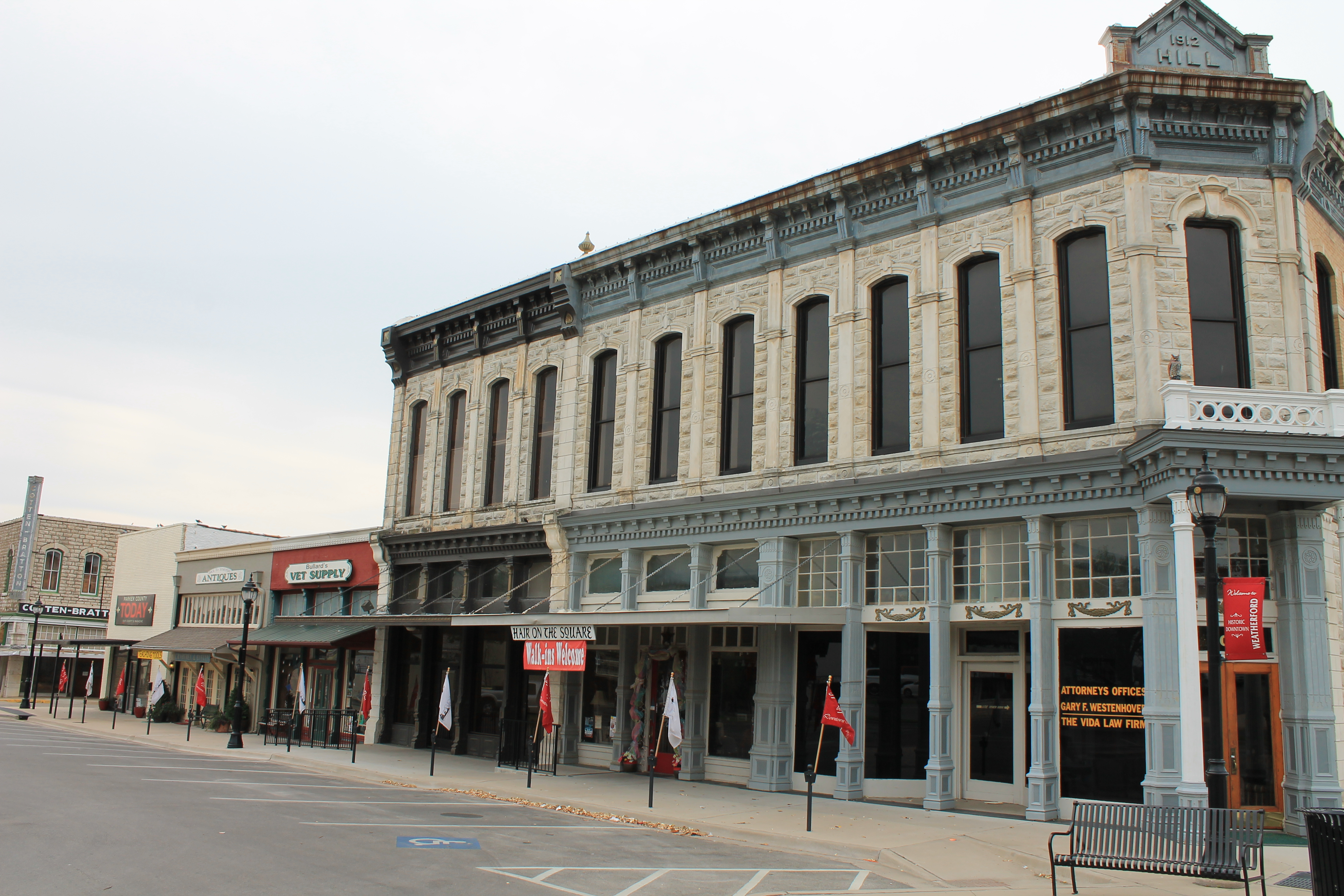 Weatherford Downtown Historic District